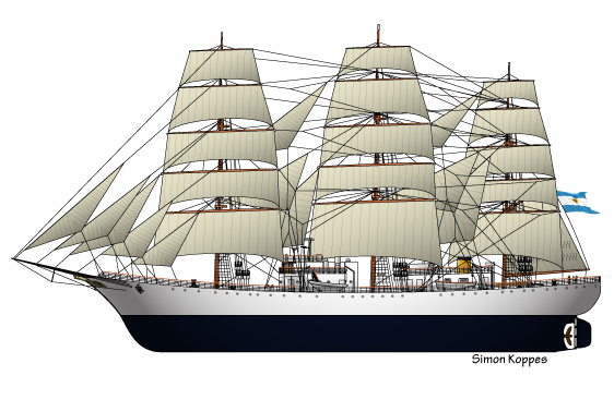 Drawing of the Argentinian sailing ship ARA Libertad